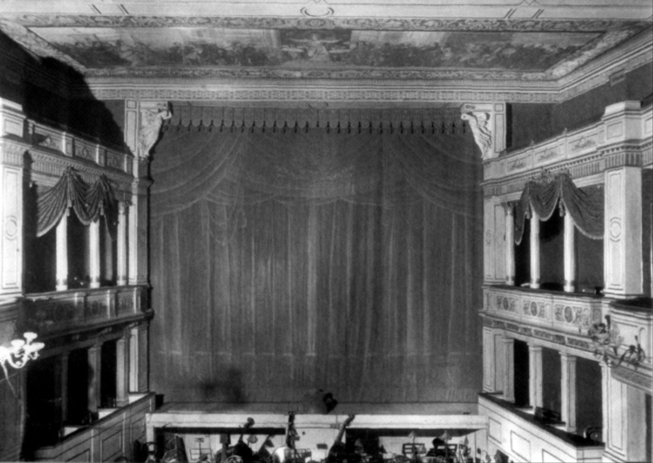 Hoftheater Weimar, vor 1907